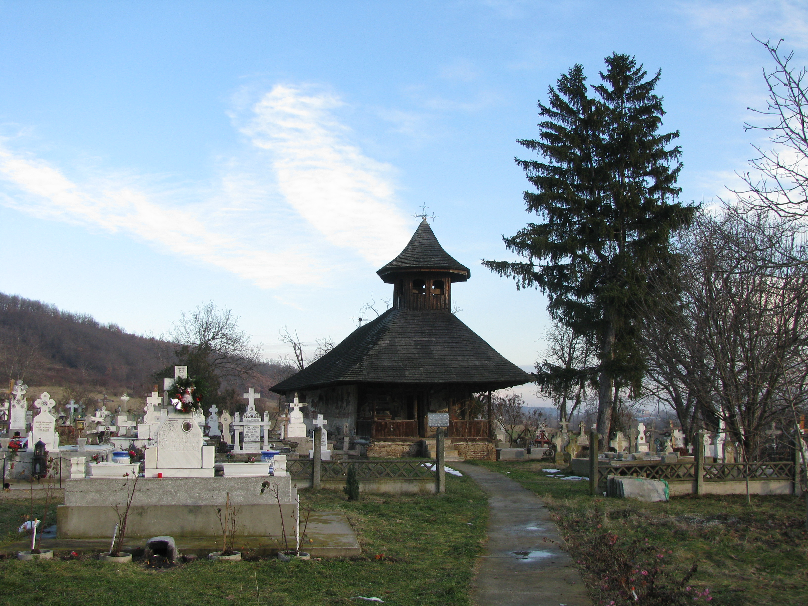 Wooden church "Nașterea Domnului" from Glâmbocata Deal village, Leordeni commune, Argeș county, Romania